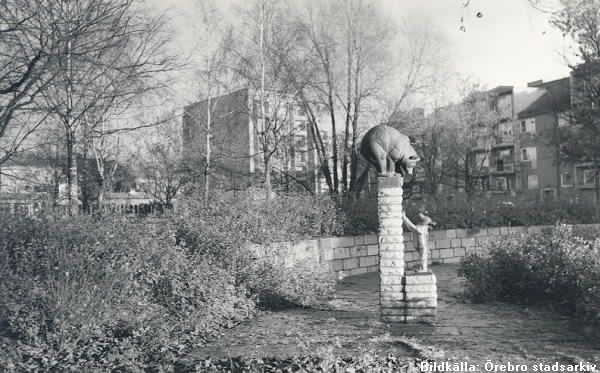 Statue at Längbrotorg, Örebro, Sweden